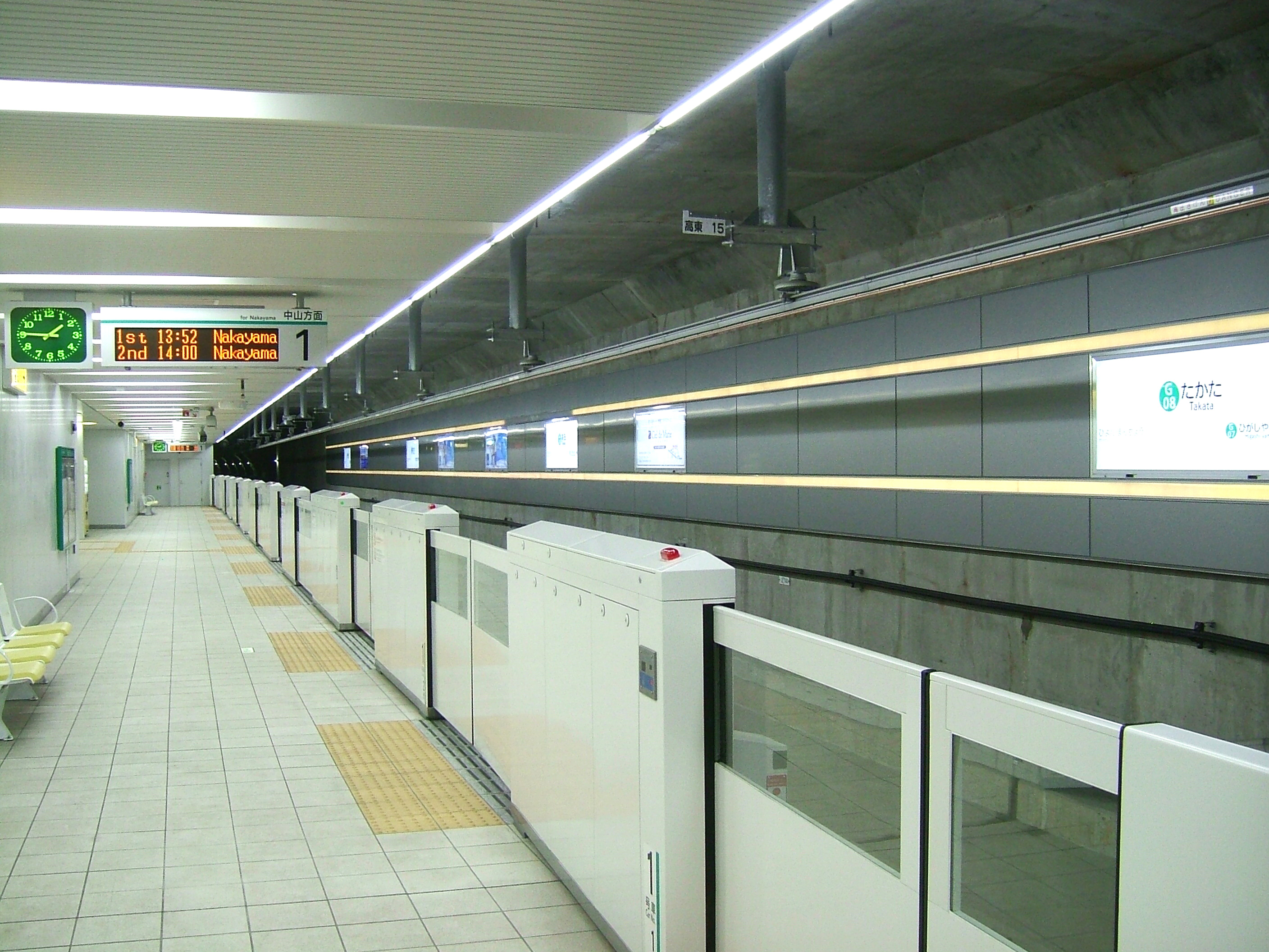 Takata Station platform (Yokohama Municipal Subway Green Line)